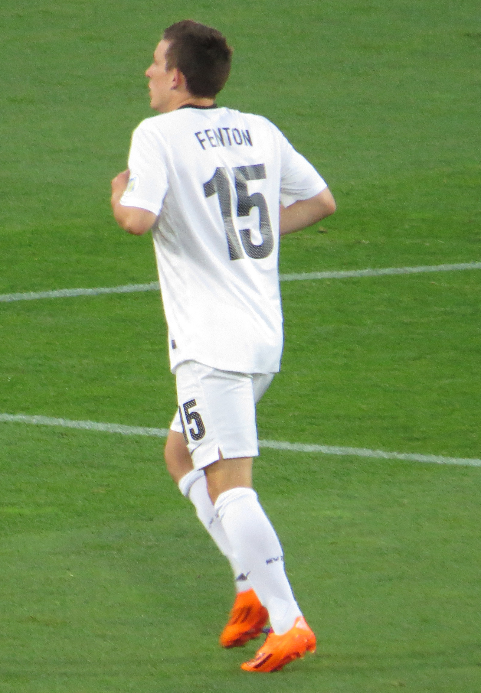 New Zealand All Whites defender Louis Fenton playing against Mexico in their 2014 World Cup Qualification match in November 2013.